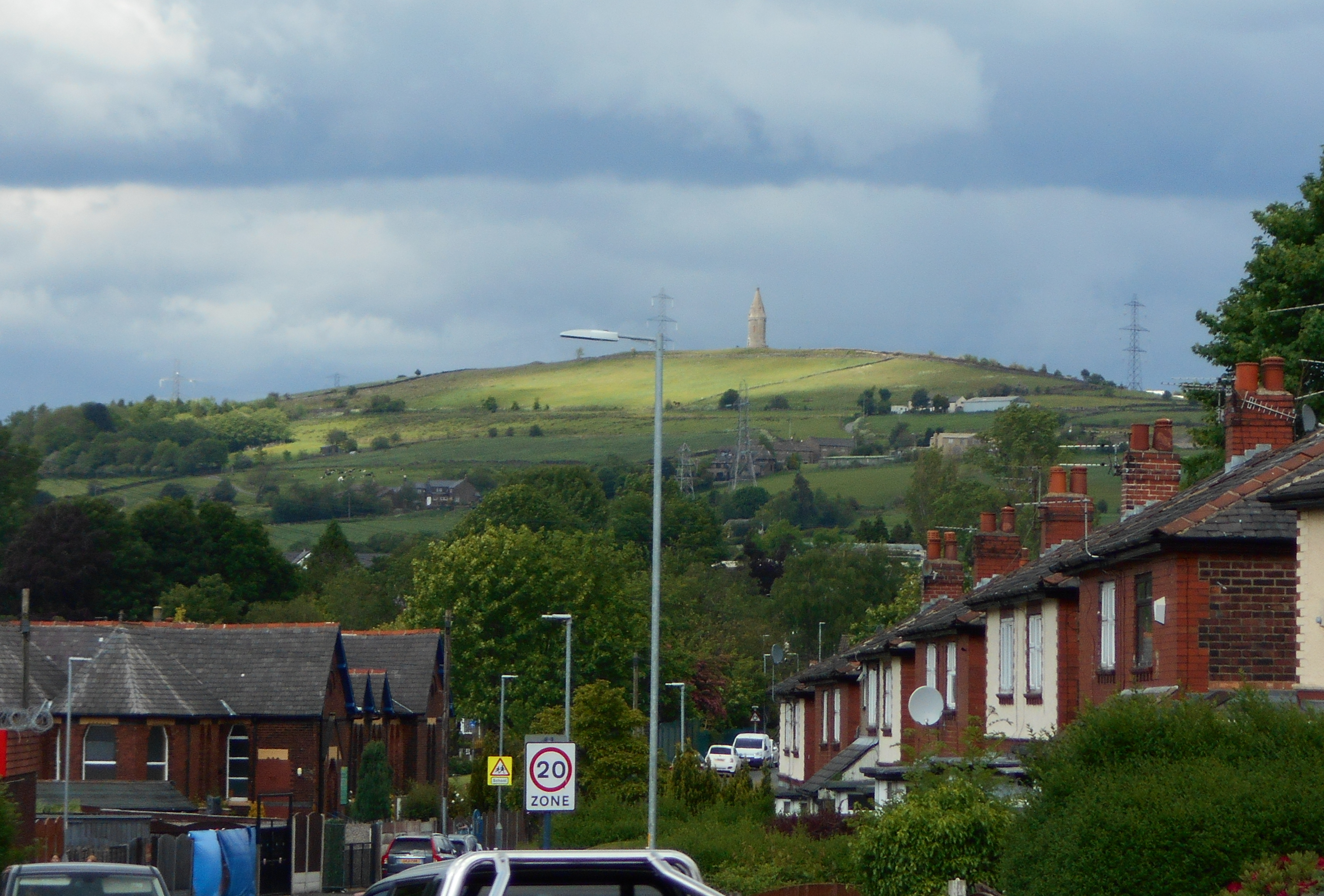 Hartshead Pike seen from Ashton-under-Lyne below